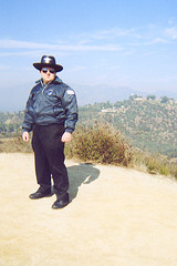 Wackenhut Security Officer.